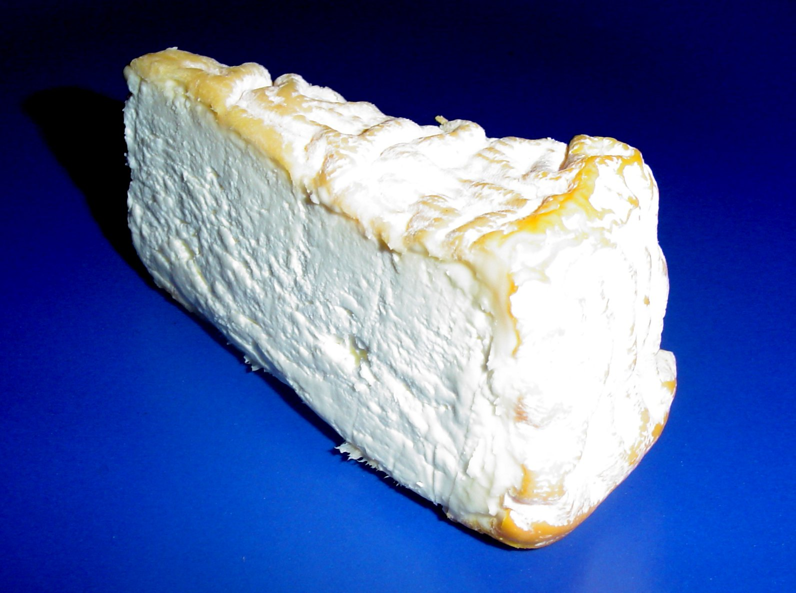 Langres cheese, France. Photography (c) 2005 Zubro (image by myself).